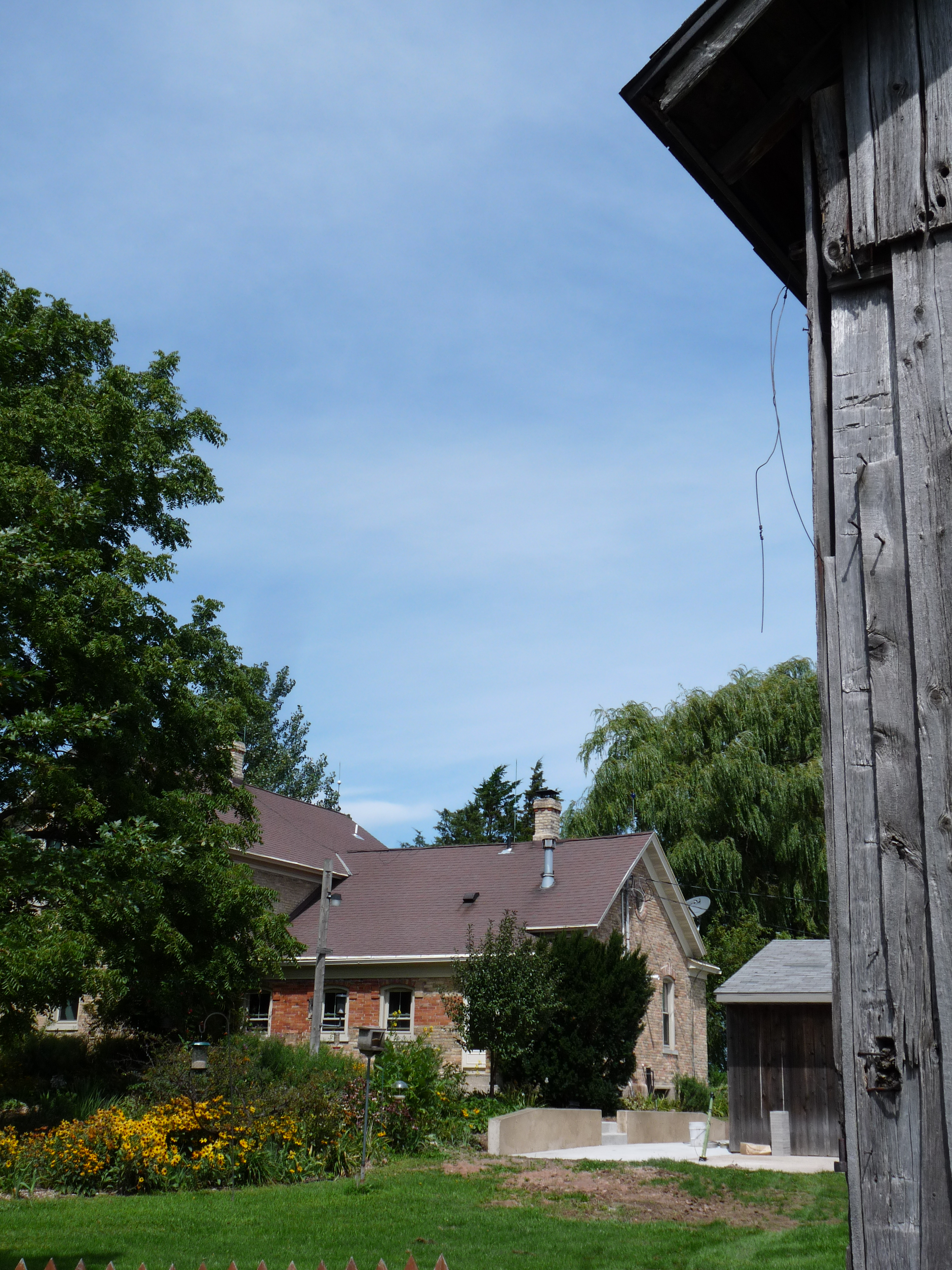 The house at the George Halada Farmstead near Ellisville, Wisconsin, was built around 1878. Some horizontal log farm buildings nearby are older and remain near their original form. The Farmstead was listed on the National Register of Historic Places in 1992.